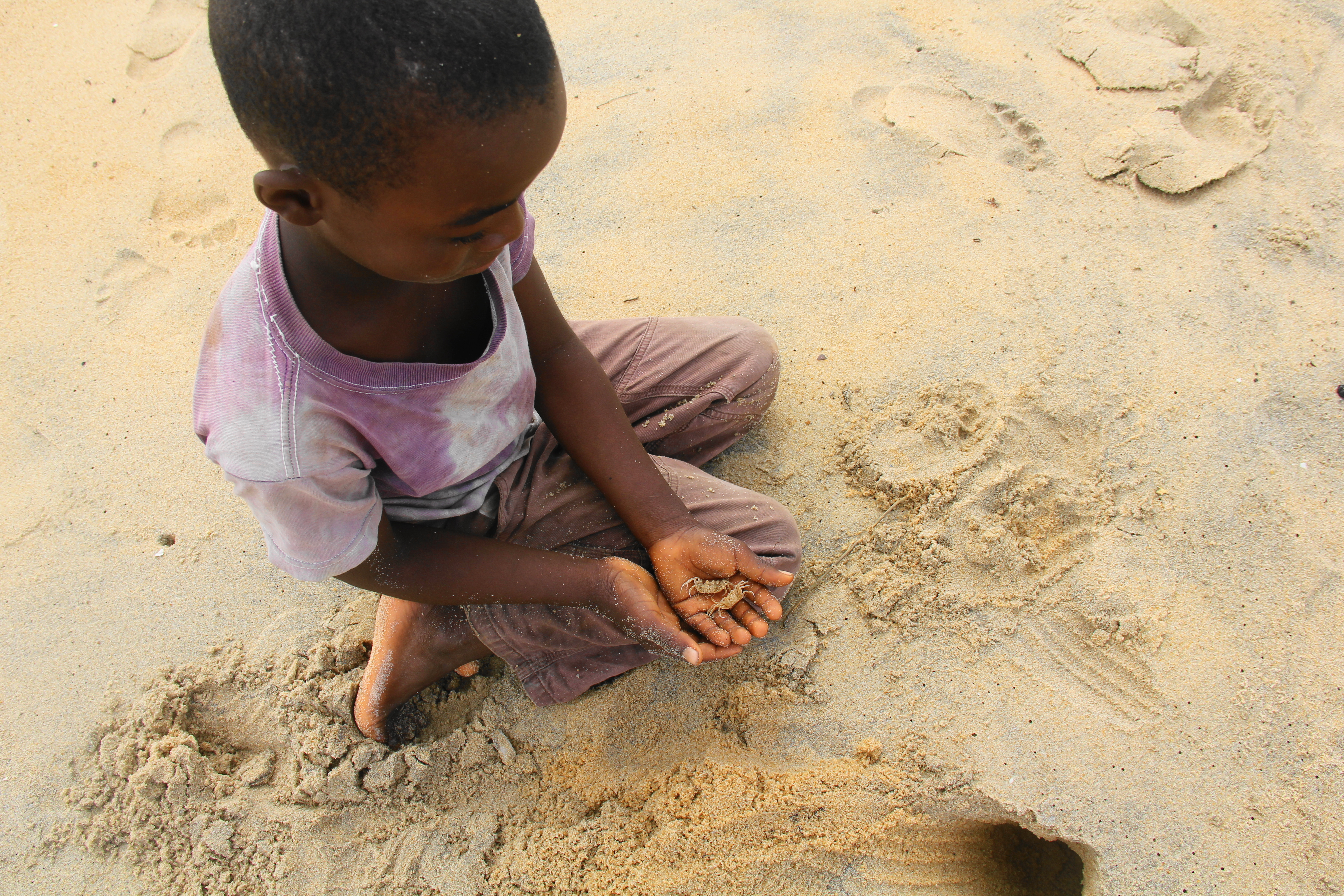 Life in Afrika This is an image of "African people at work" from Liberia